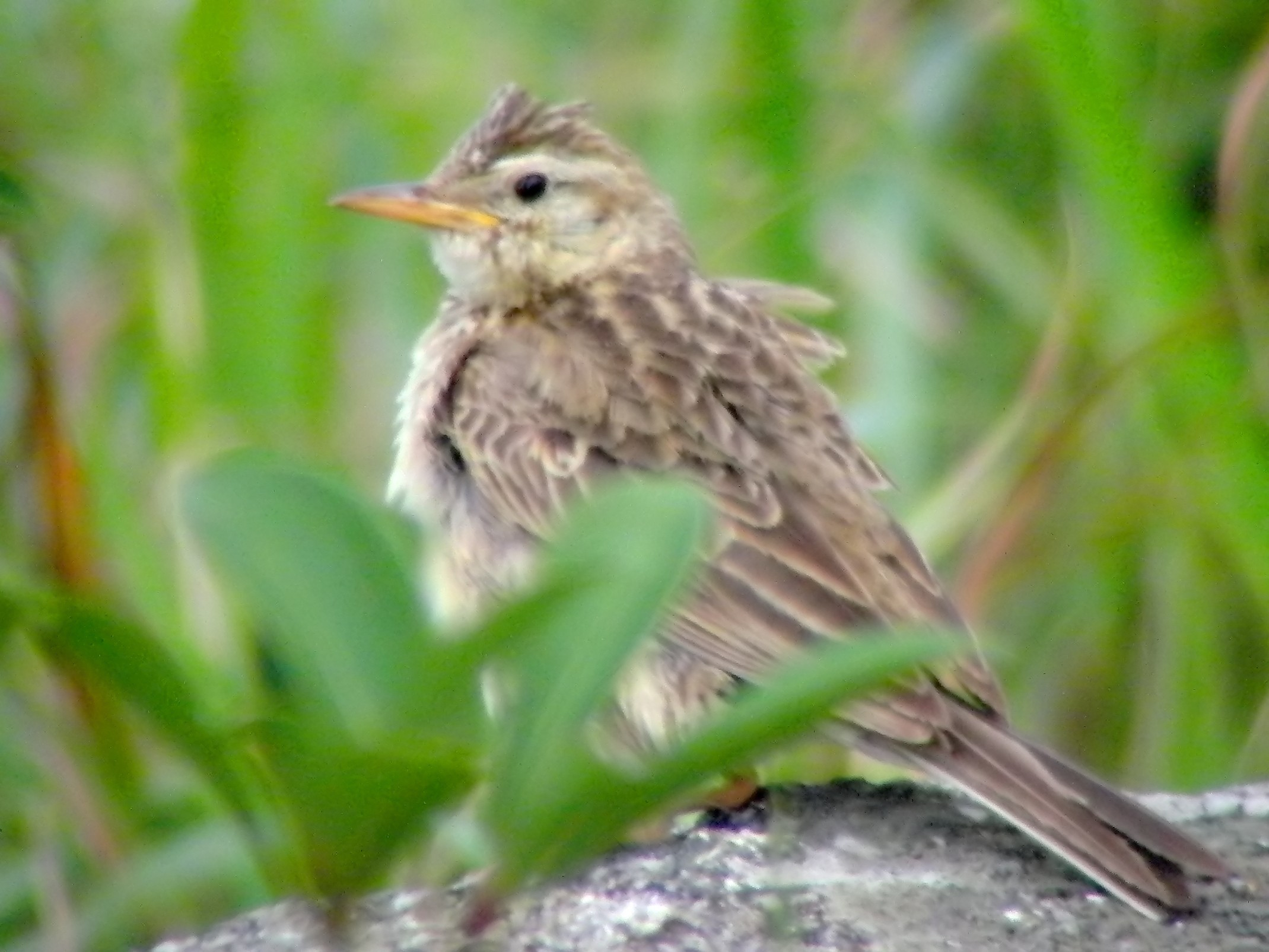 Saw at a high mountain. Got a video as well.